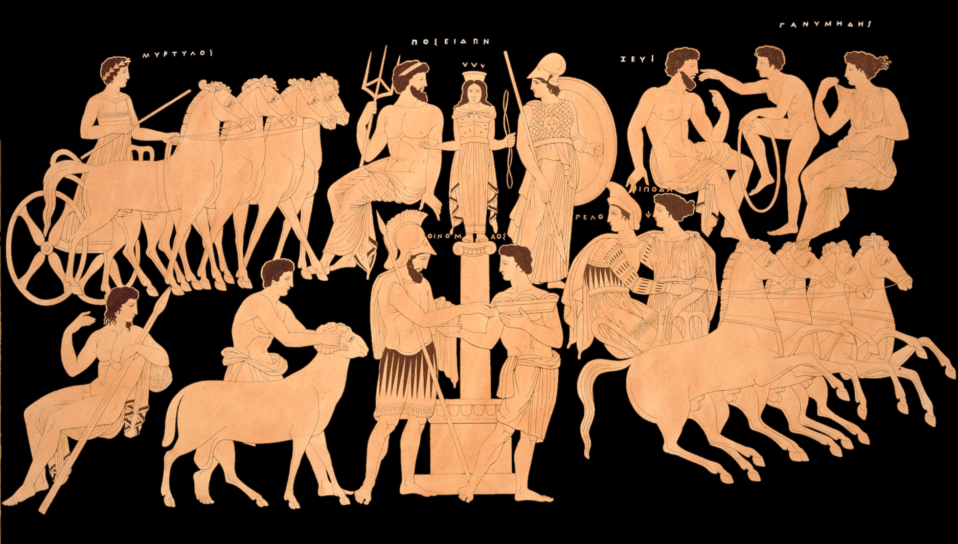 King Oenomaus, Hippodamia, and Olympian gods. Illustration (colour lithograph) from a binding of 'Peintures de Vases Antiques Vulgairement Appeles Etrusques' by Aubian Louis Millin de Grandmaison, with 'Introduction a l'Etude des Vases Antiques d'Argile Peints Vulgairement Appeles Etrusques', by A. Dubois Maisonneuve; possibly refers to the establishment of the Olympic Games in honour of Oinomaos; died in a chariot race against Pelops, who wanted to marry his daughter Hippodamea